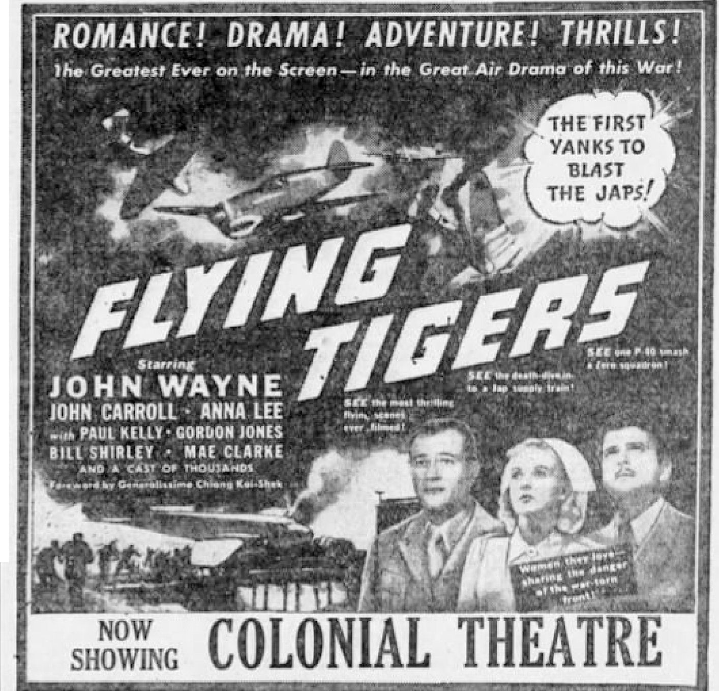 Colonial Theater advertisement for the American war film Flying Tigers (1942) - 6 Nov. 1942 Morning Call, Allentown PA